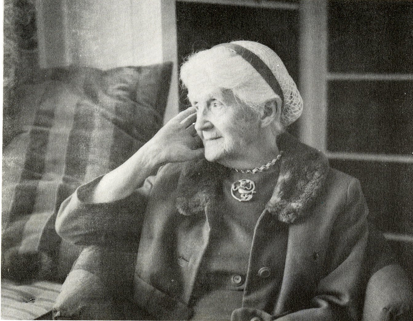 Photograph of Mary Foulke Morrisson for her Christmas card.